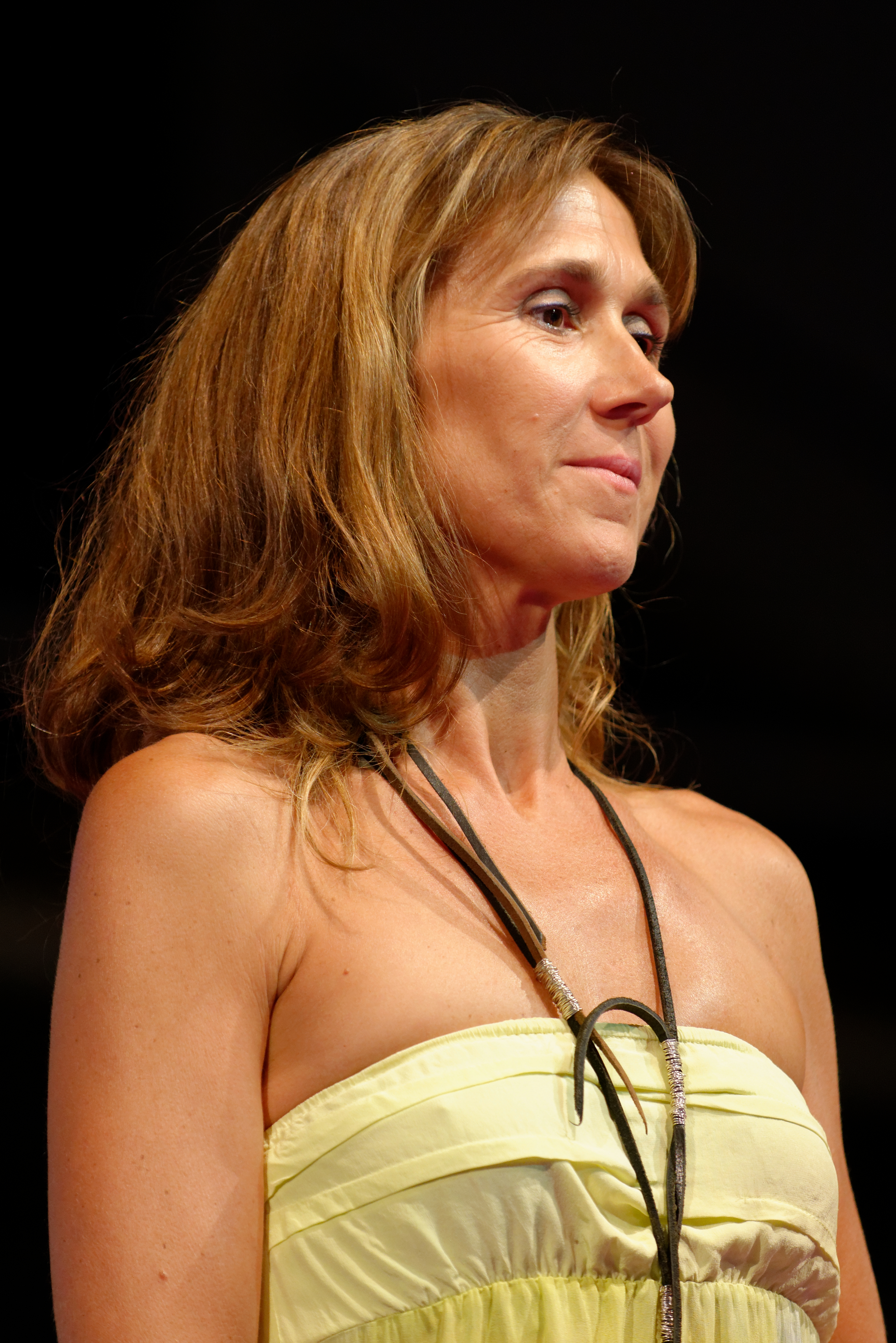 Tímea Nagy at the award ceremony of the women's team épée at the 2013 World Fencing Championships 2013 at Syma Hall in Budapest on 11 August 2013.